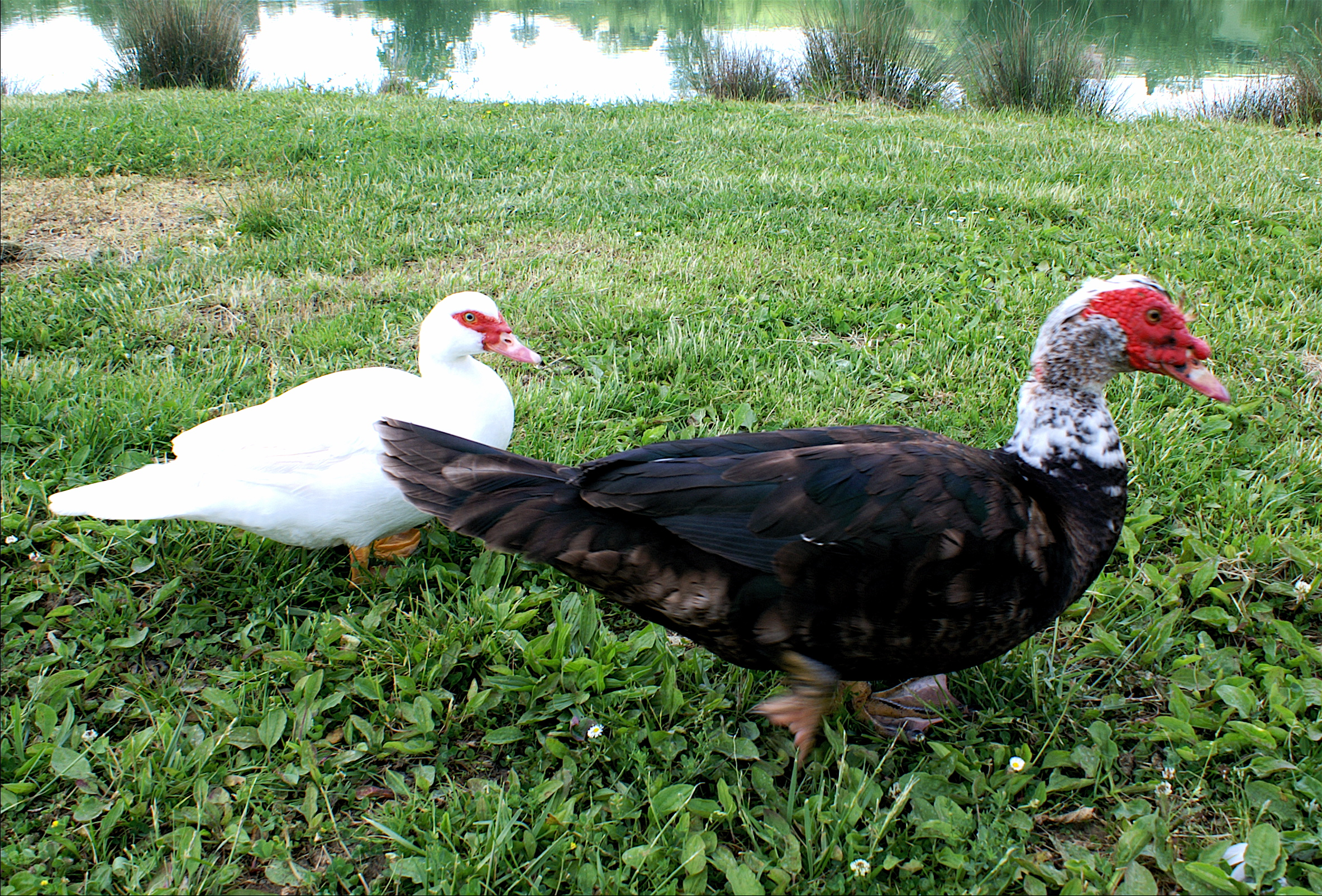 Muscovy Duck - Mister and madam